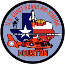 Patch for AIRSTA Houston